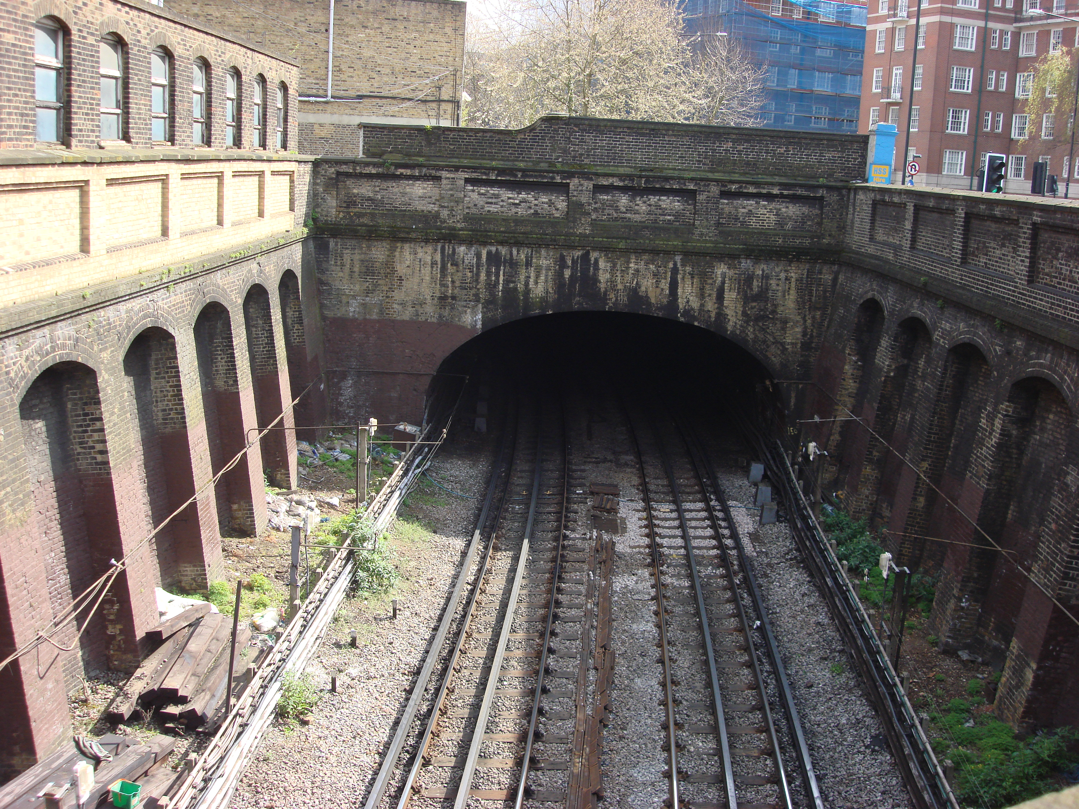 Location of the platforms belonging to The former Marlborough Road tube station opened in 1868 and Closed 1939. Now a restaurant.